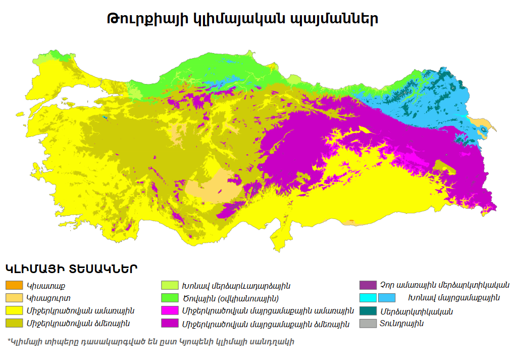 Turkey koppen